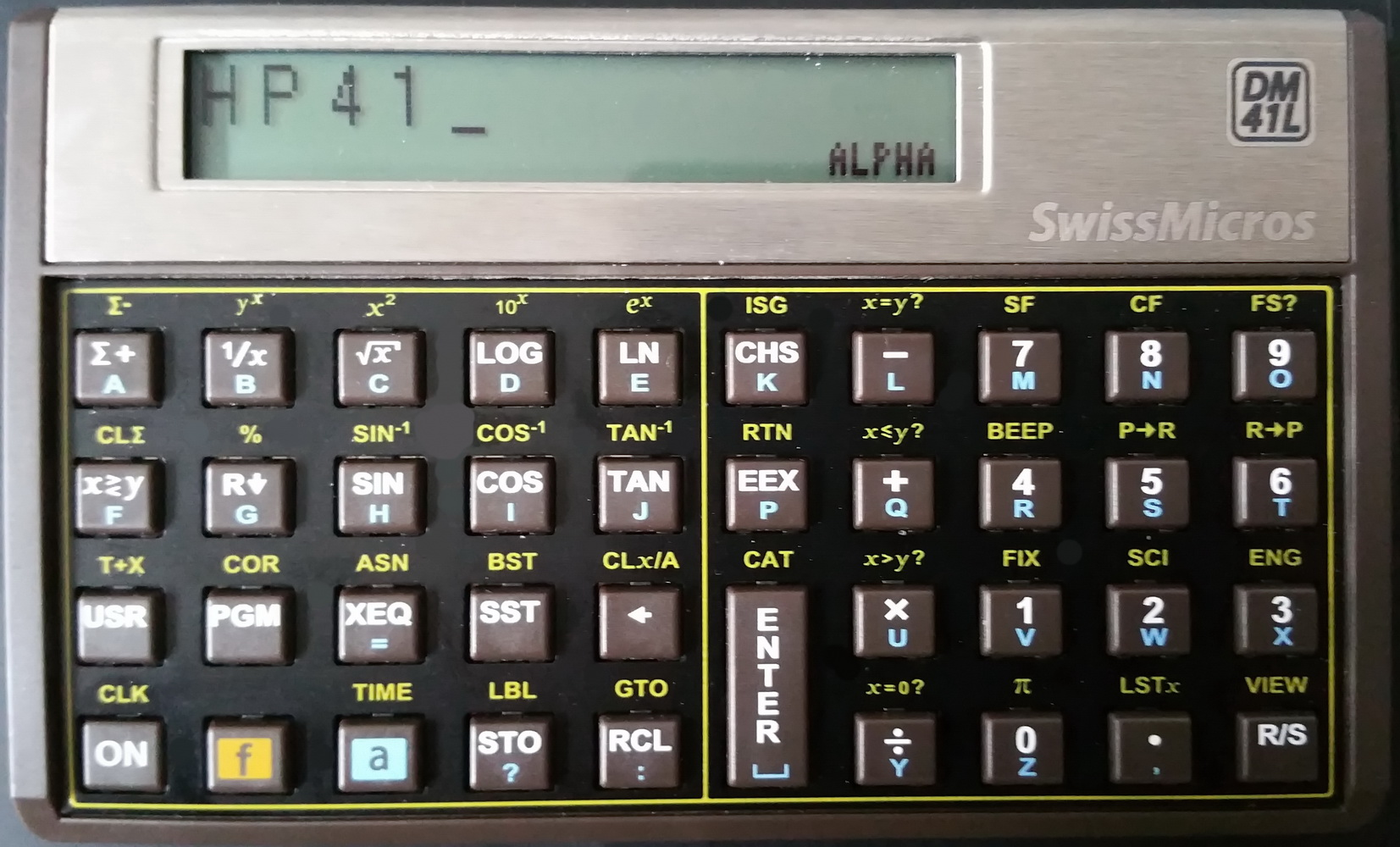 DM41Lpocket calculator compatible with HP41CX